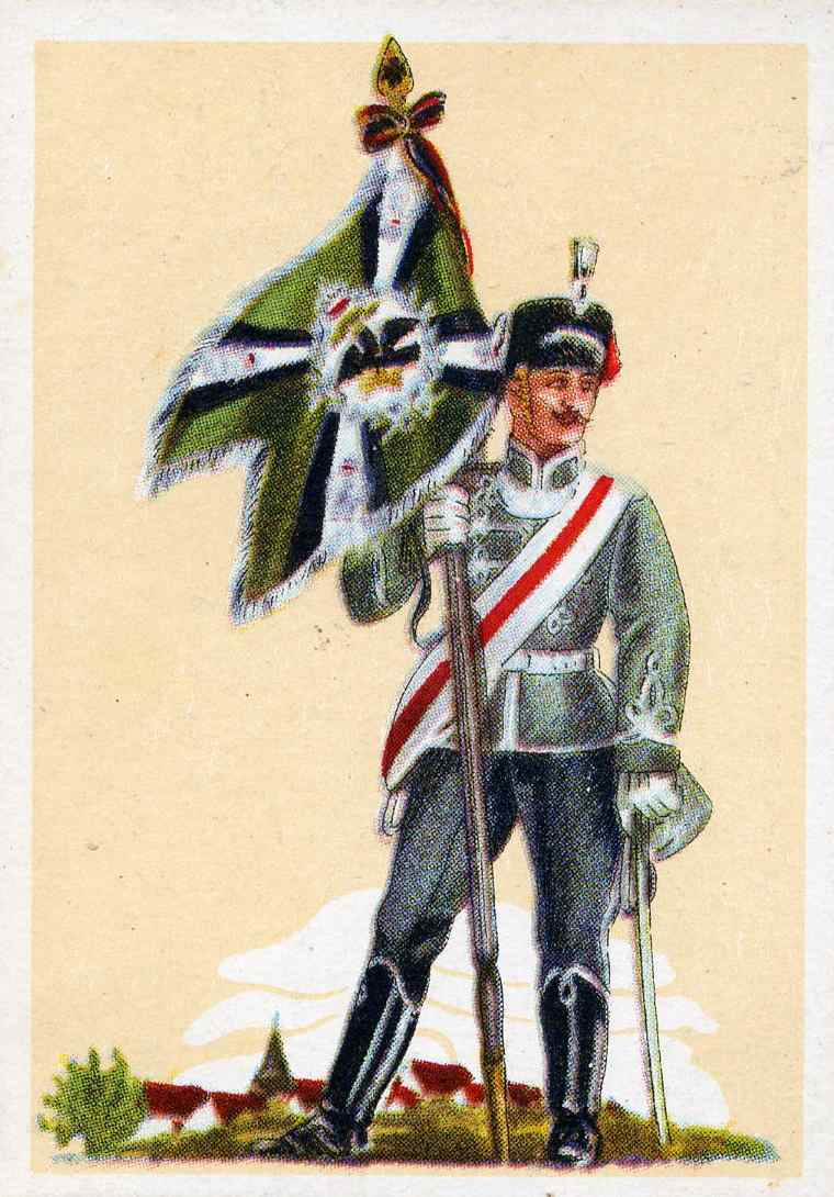 Regimental Colour of the royal prussian 11th Regiment of Hussars (2nd Westphalian)